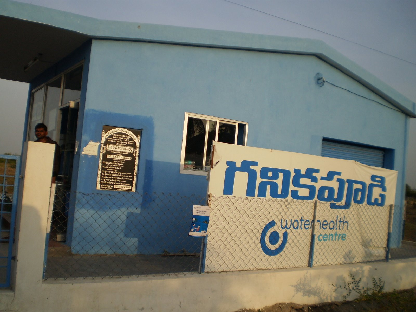 Water purification pump constructed in my village. THis image was taken by my sony camera.